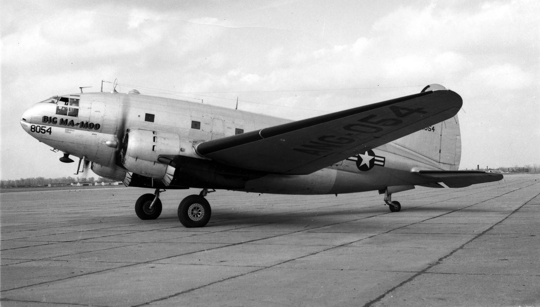 A U.S. Air Force Curtiss C-46D-15-CU Commando (s/n 44-78054, "Big-Ma-Moo") assigned to the U.S. Air National Guard.